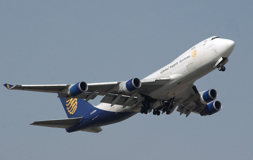 G-GSSA B747-47UF of Global Supply Systems taking off from Dubai on December 7, 2010.